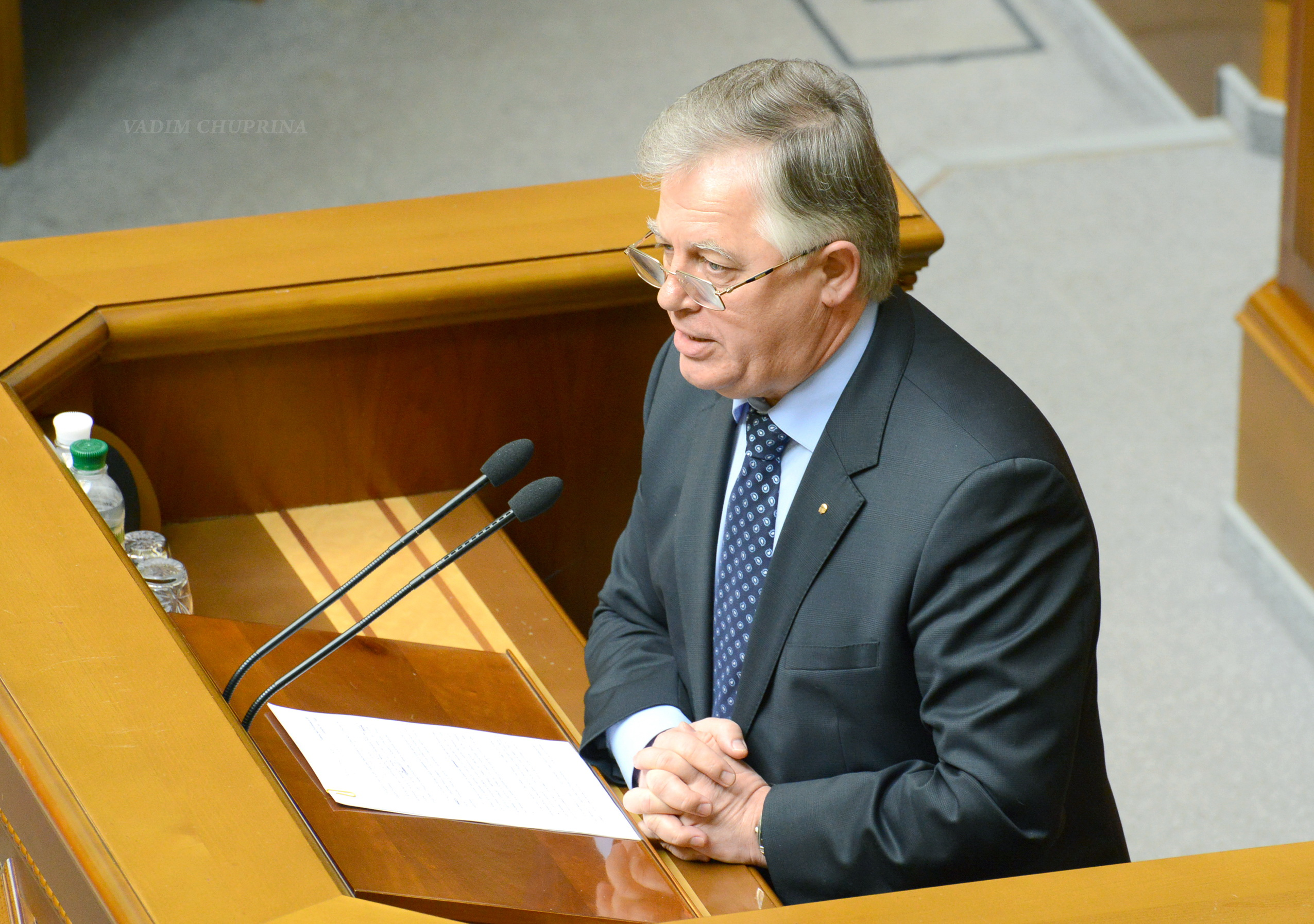 Ukrainian politicians VADIM CHUPRINA